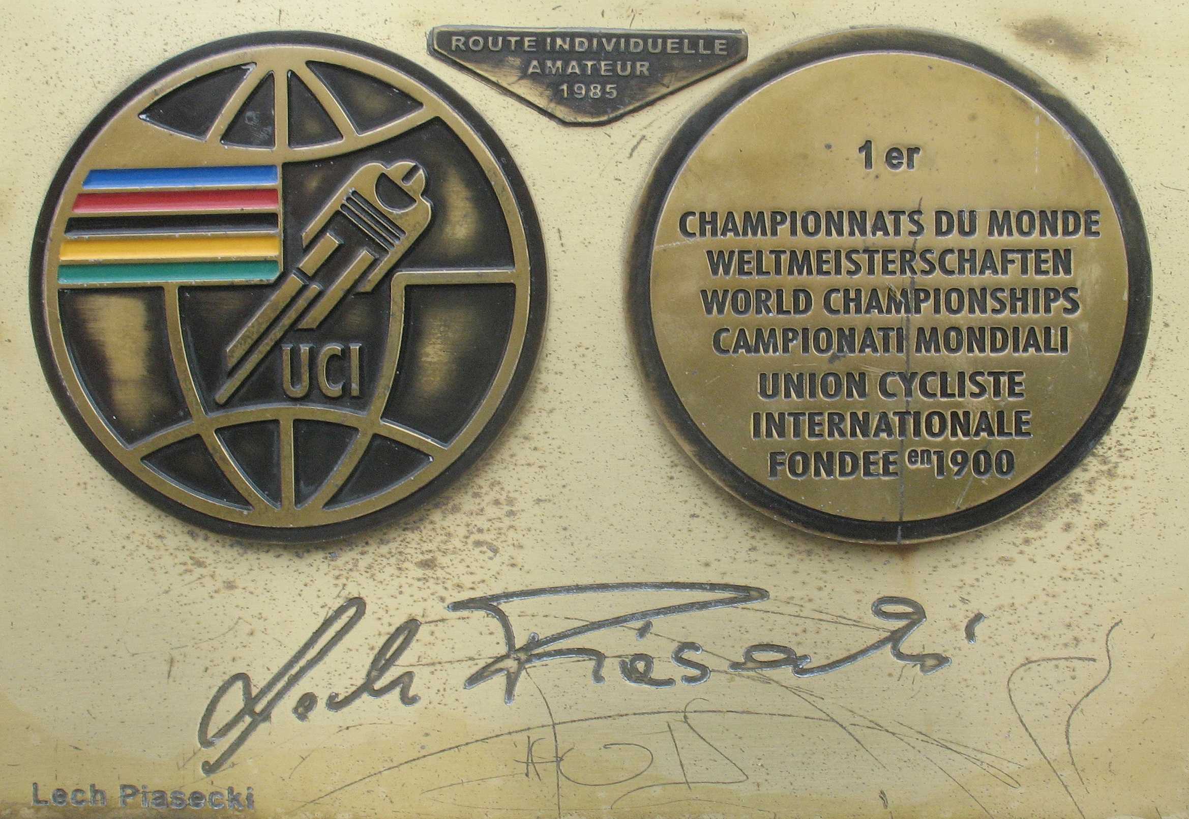 Lech Piasecki medal & autograph in Avenue of Sport Stars Dziwnów